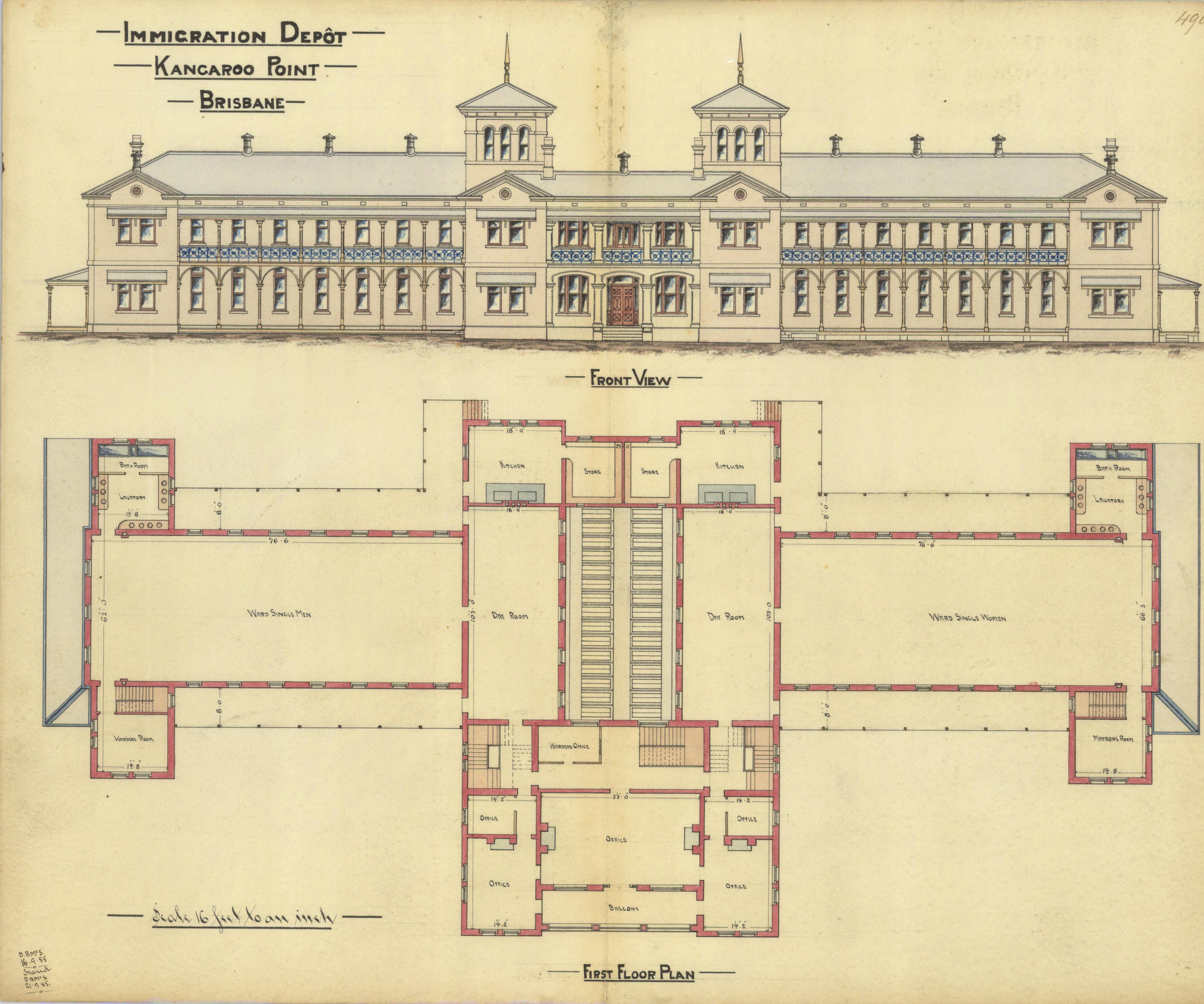 Yungaba Immigration Depot, Kangaroo Point, Brisbane, 1885